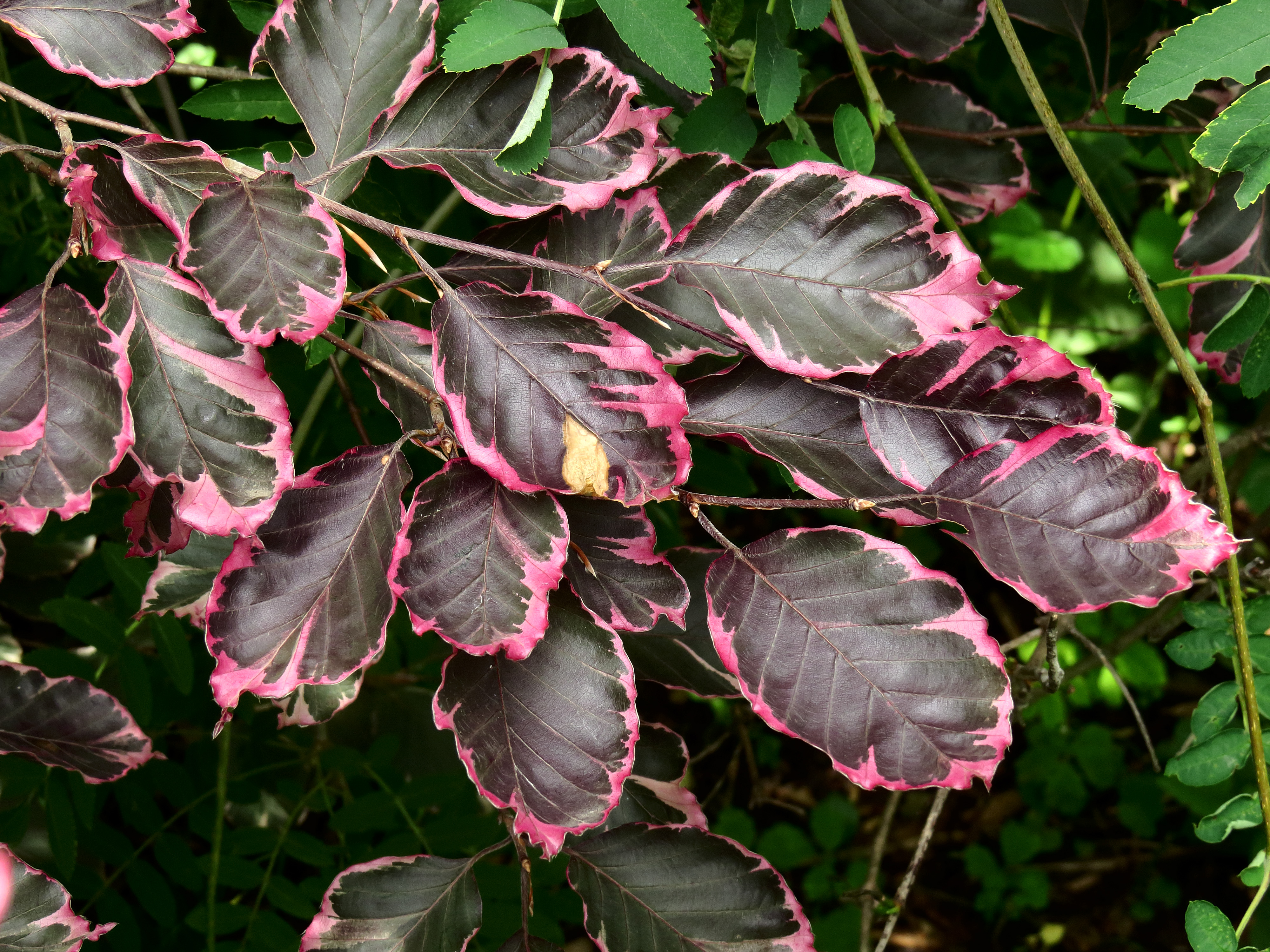 Fagus sylvatica 'Purpurea Tricolor' in Syretsky arboretum, Kiev, Ukraine